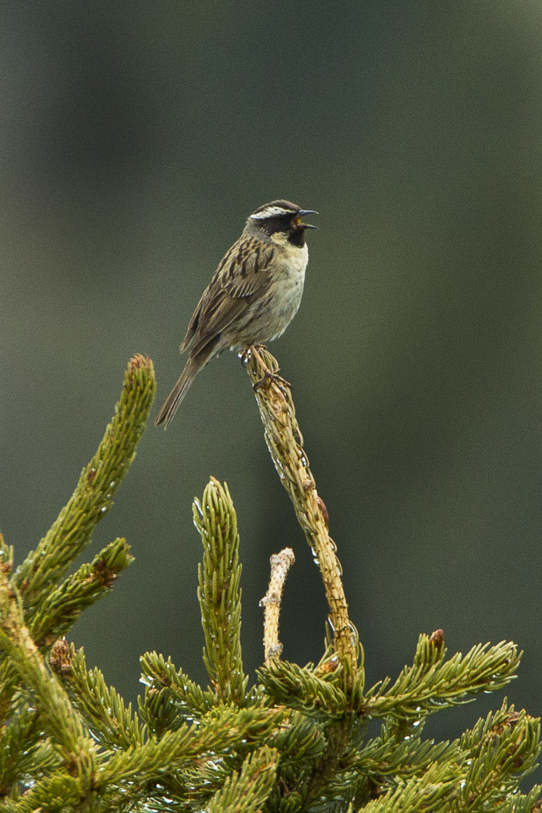 Black-throated Accentor - Kazakistan_S4E3967